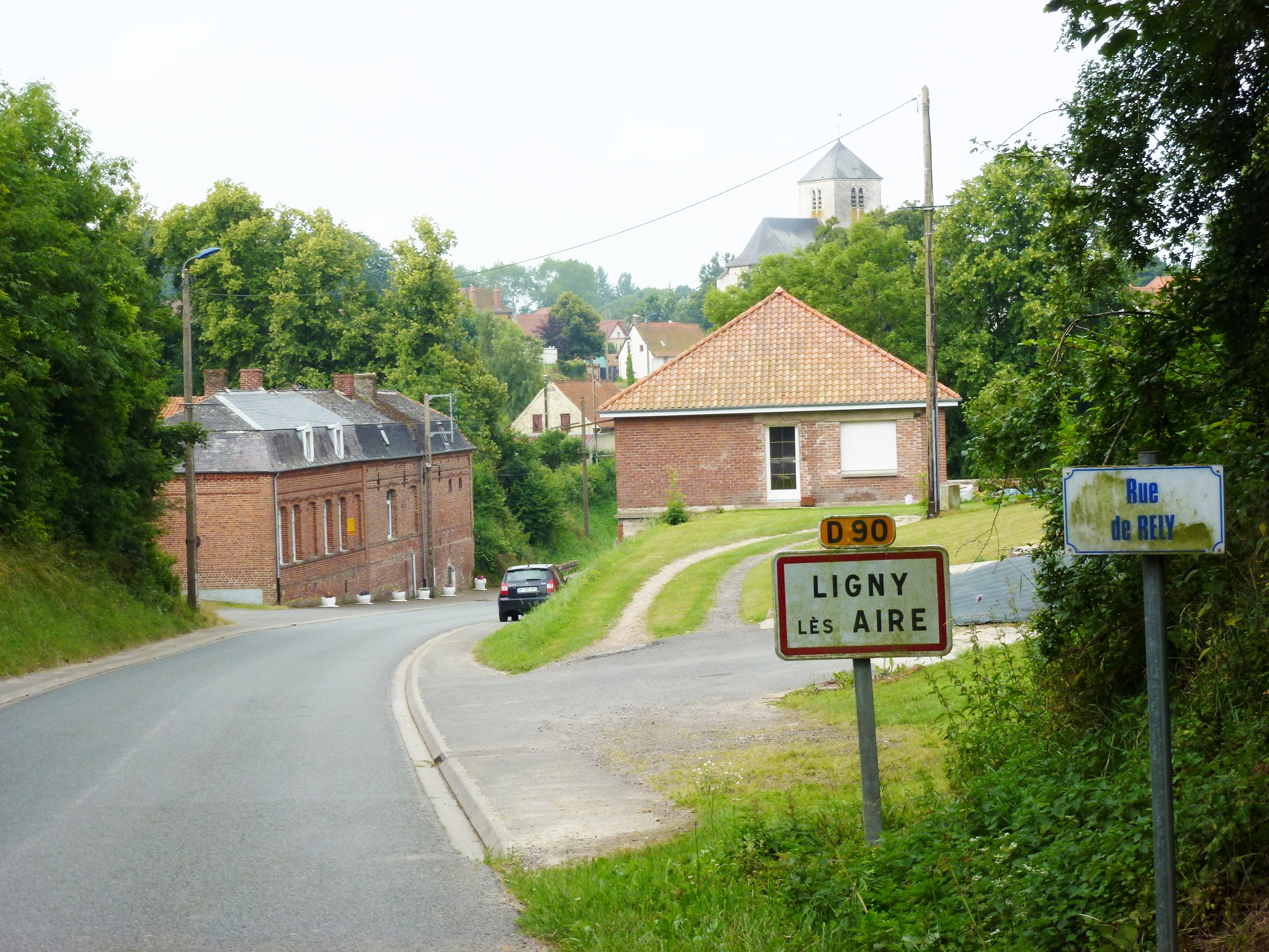 Ligny-lès-Aire (Pas-de-Calais, Fr) city limit sign